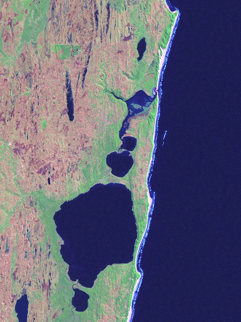 Satellite picture of Kosi Bay, KwaZulu-Natal, part of the St Lucia Wetland Park and the easternmost point of South Africa. The cape visible on the top of the picture constitutes the border with Mozambique. The biggest lake is lake Nhlange.